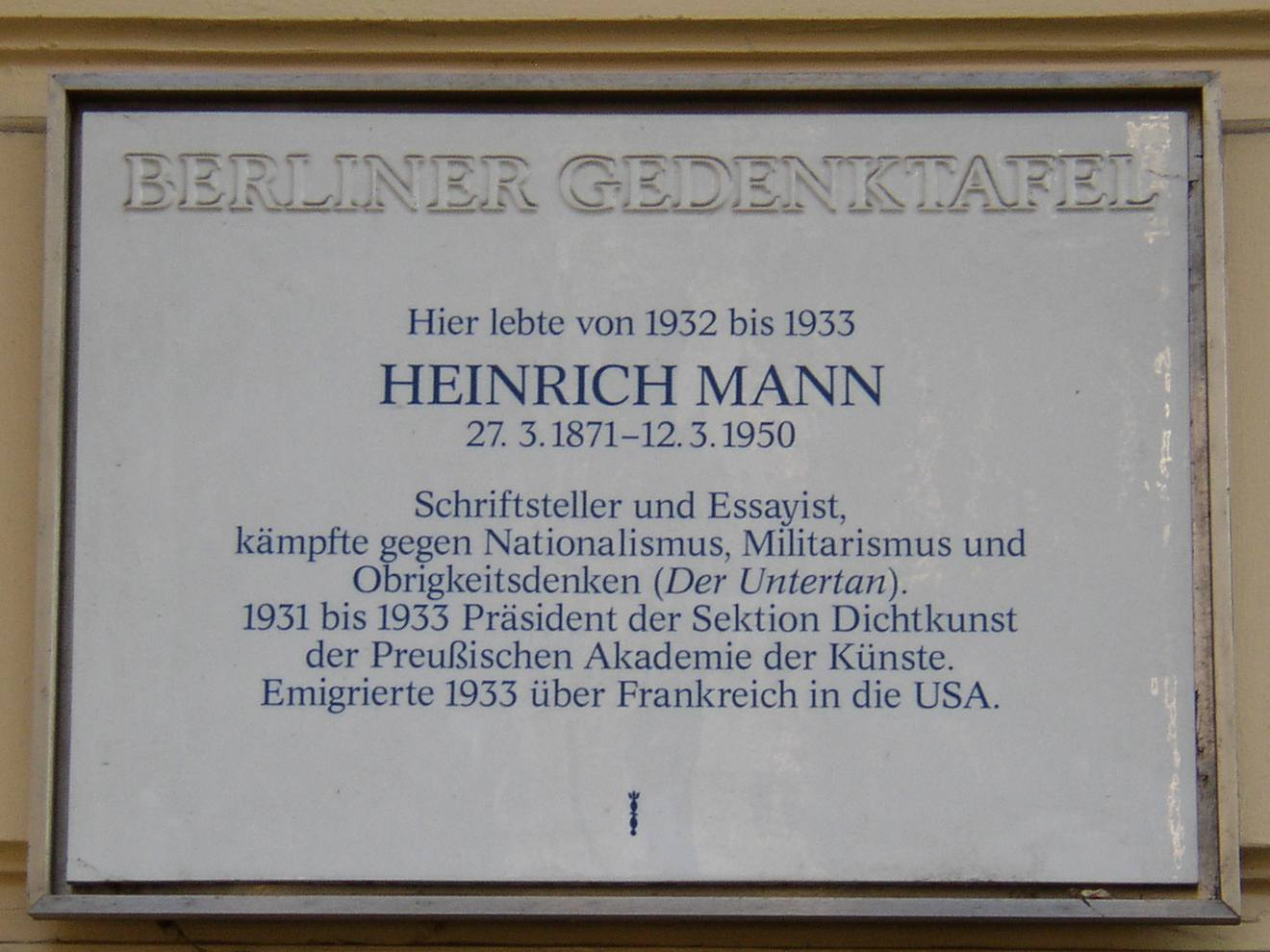 Berlin memorial plaque for Heinrich Mann in Berlin-Wilmersdorf, Germany